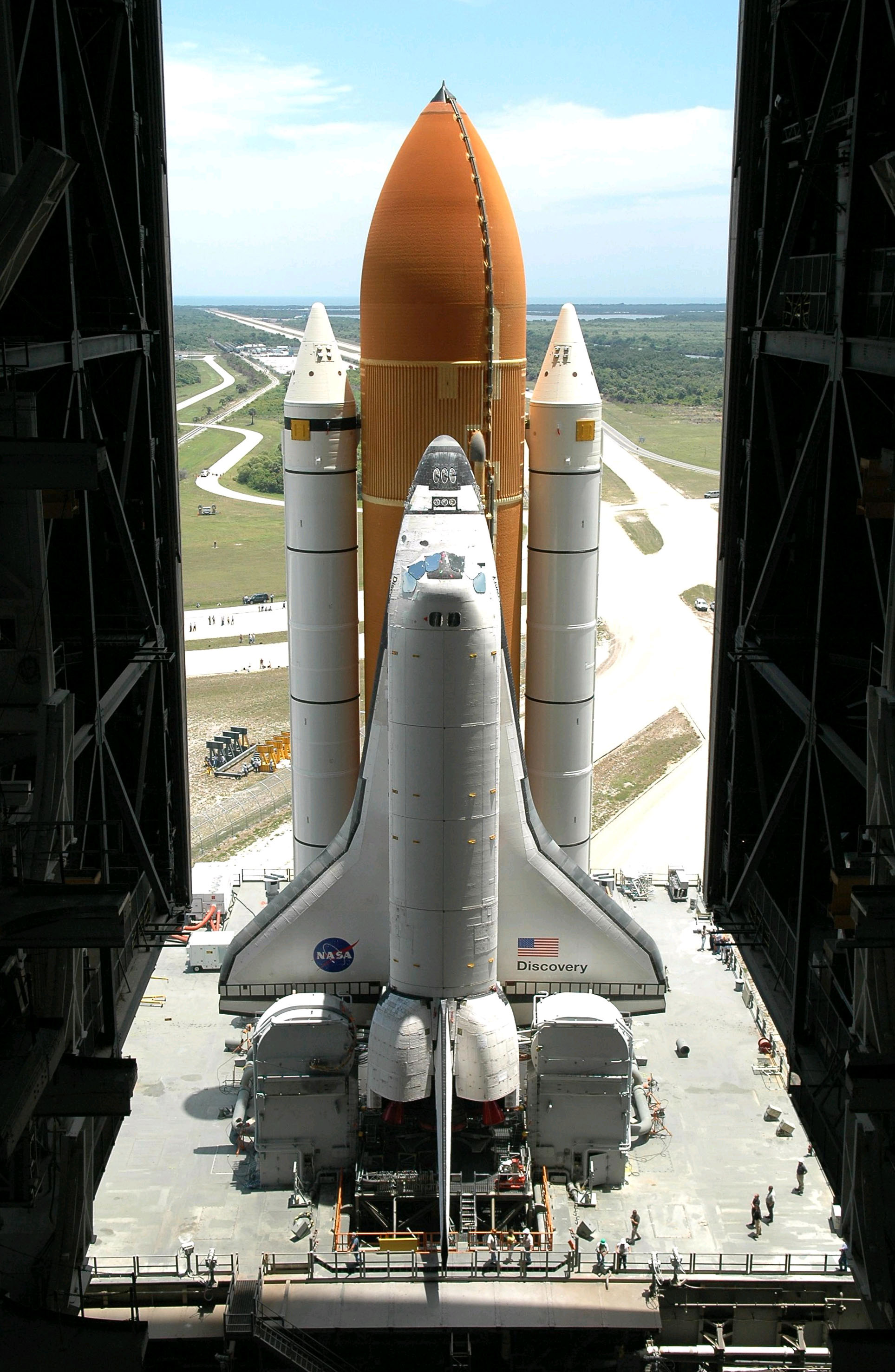 KENNEDY SPACE CENTER, FLA. -- Daylight streams through the open doors of NASA's Vehicle Assembly Building as Space Shuttle Discovery begins its slow 4.2-mile journey via the crawlerway to Launch Pad 39B. The shuttle rests on a mobile launcher platform that sits atop a crawler-transporter. First motion was at 12:45 p.m. EDT. The rollout is an important step before launch of Discovery on mission STS-121 to the International Space Station. Discovery's launch is targeted for July 1 in a launch window that extends to July 19. During the 12-day mission, Discovery's crew will test new hardware and techniques to improve shuttle safety, as well as deliver supplies and make repairs to the station. Photo credit: NASA/Kim Shiflett